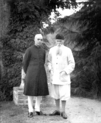 Jawaharlal Nehru and Nicolas Roerich, India